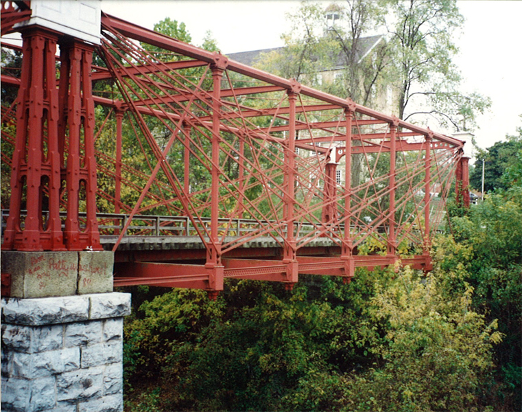 Partial Elevation of The Bollman Truss Railroad Bridge at Savage, Maryland following 1983-84 Rehabilitation by WM&A.